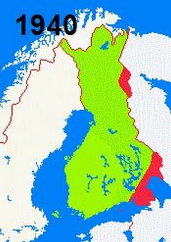 Border changes in Finland 1940